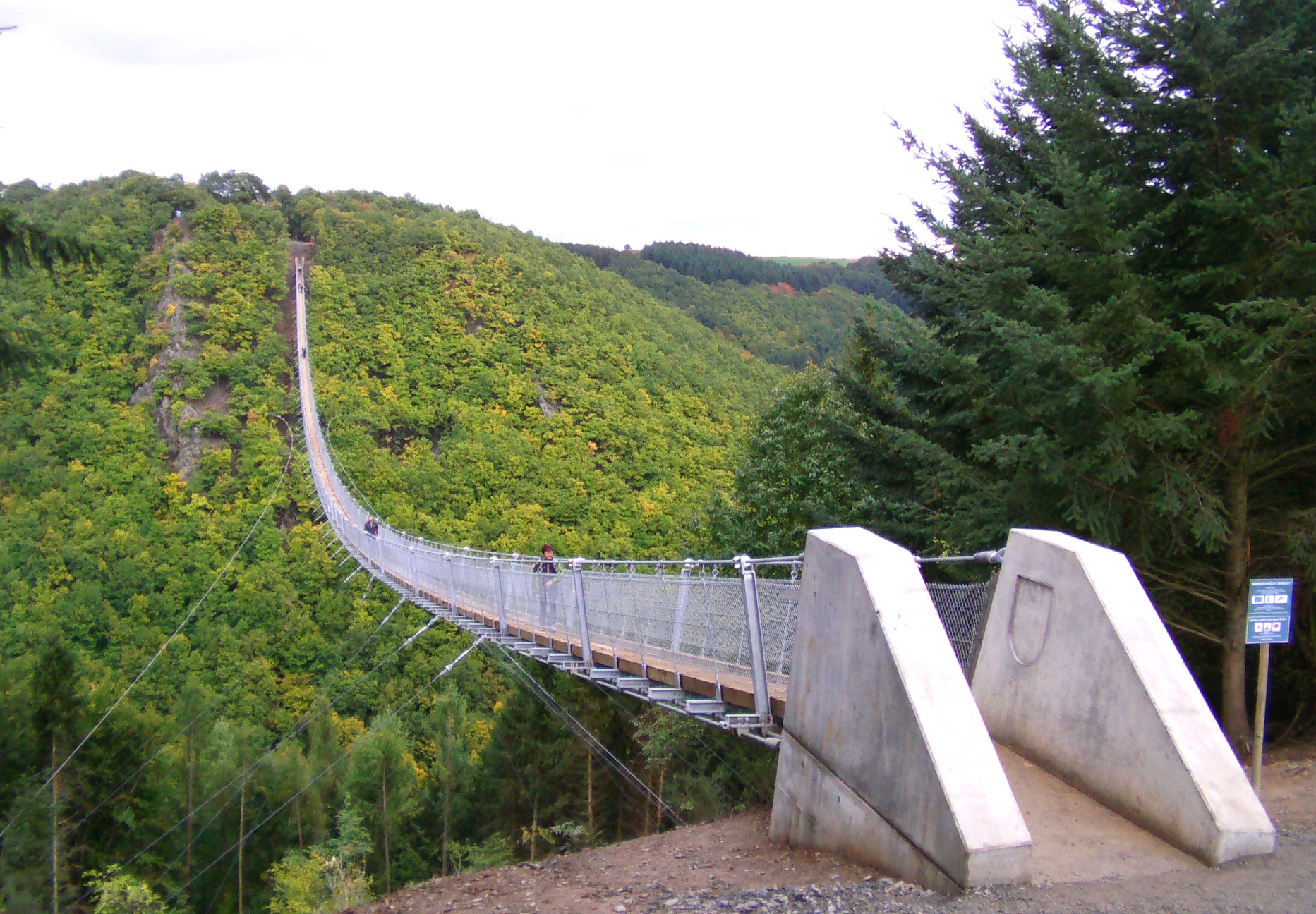 Hanging bridge Geierlay, Hunsrueck Germany (left side the rock, that gives the name for the bridge)